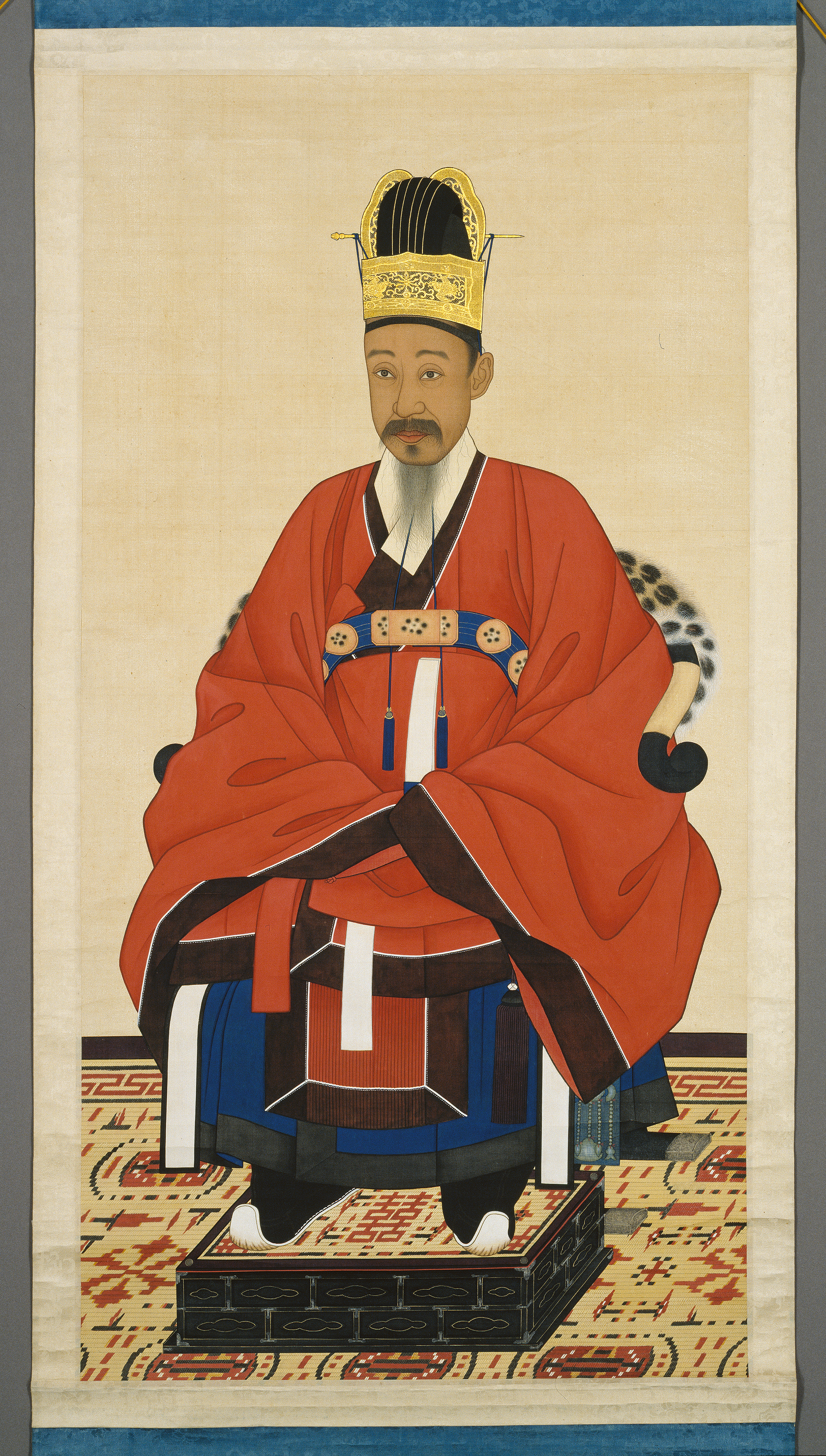 Portrait of Heungseon Daewongun, father of Gojong of Korea